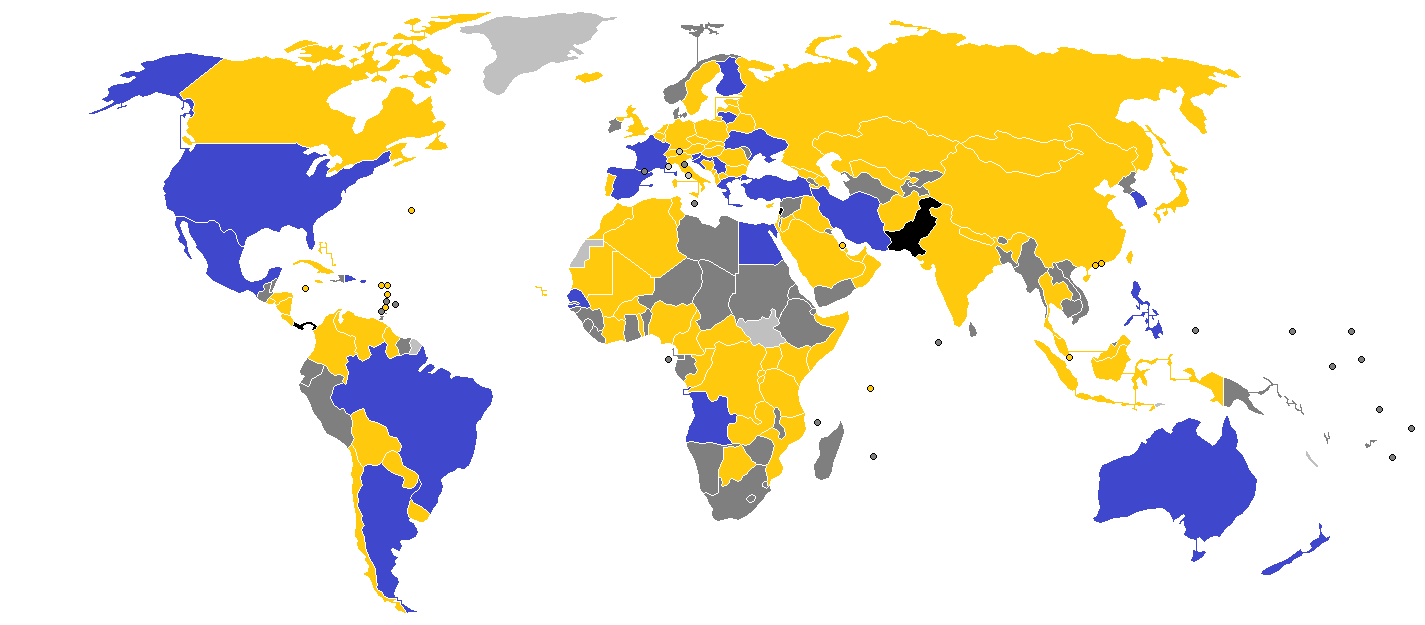 Status of teams with the intent of participating in the w:2014 FIBA Basketball World Cup. Qualified Eliminated Did not participate Suspended and disqualified Country not a FIBA member